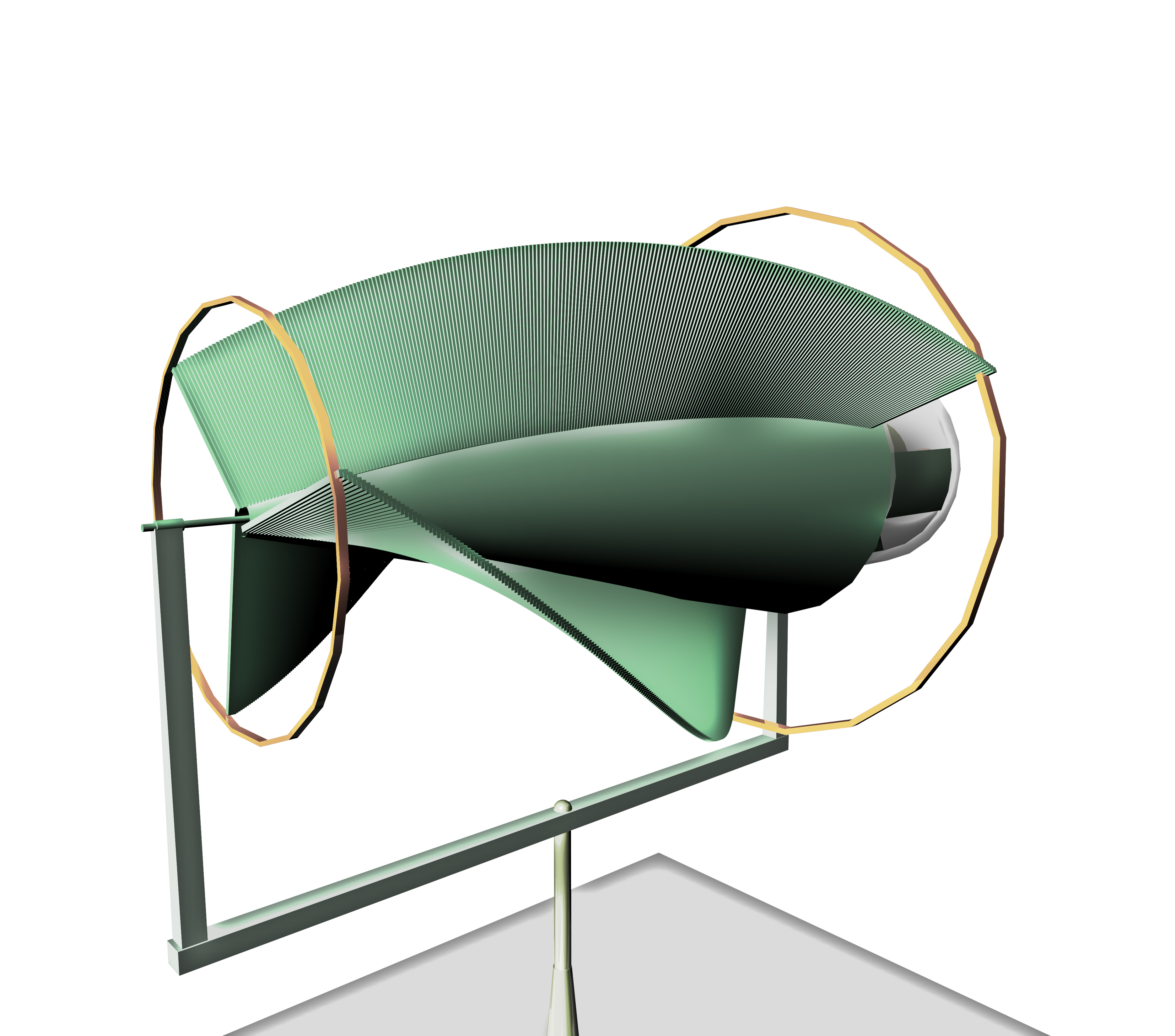 Early Onipko rotor concept, circa 2008. Codename "Tornado"